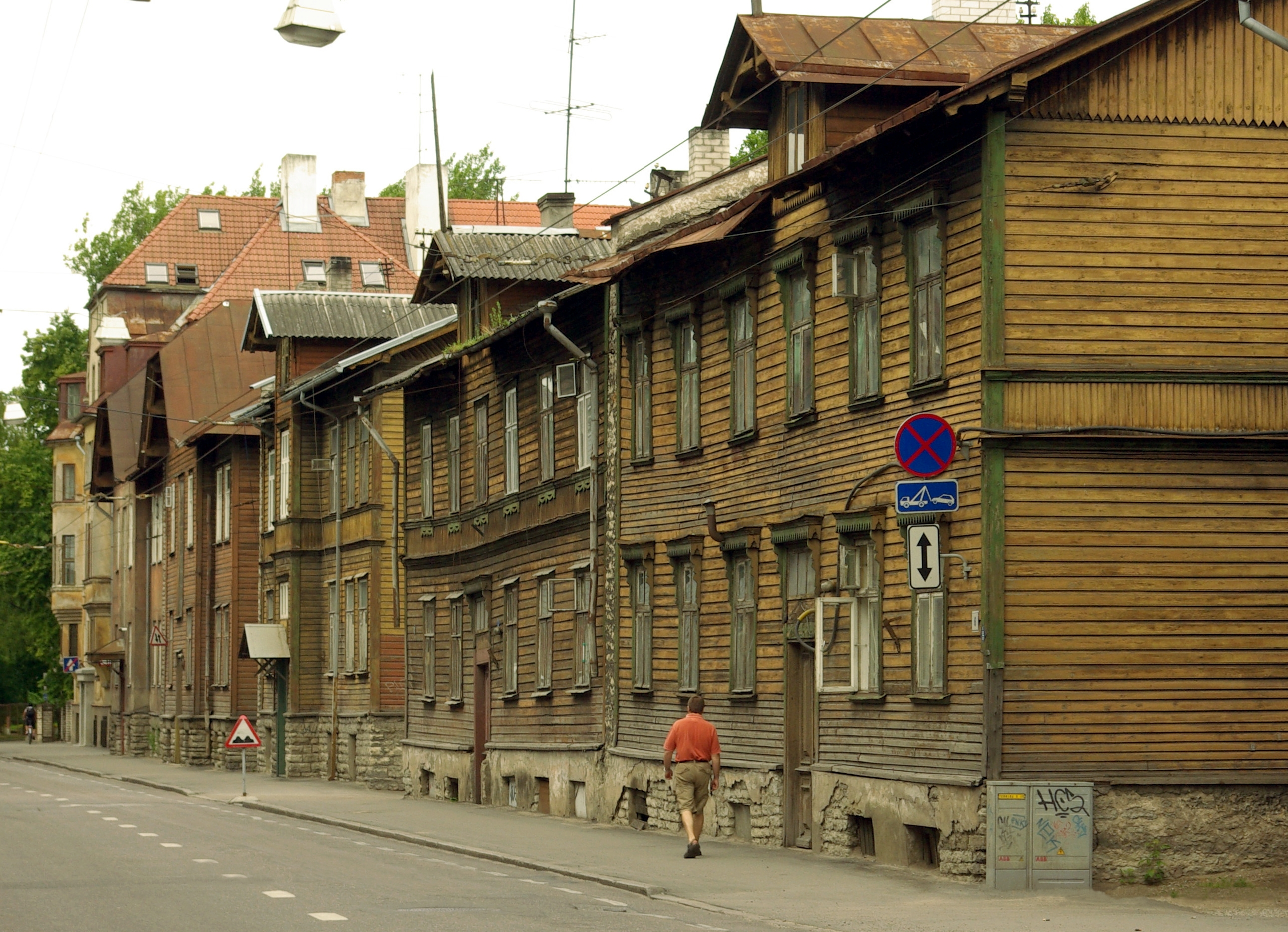 Tehnika street in Kelmiküla, Tallinn